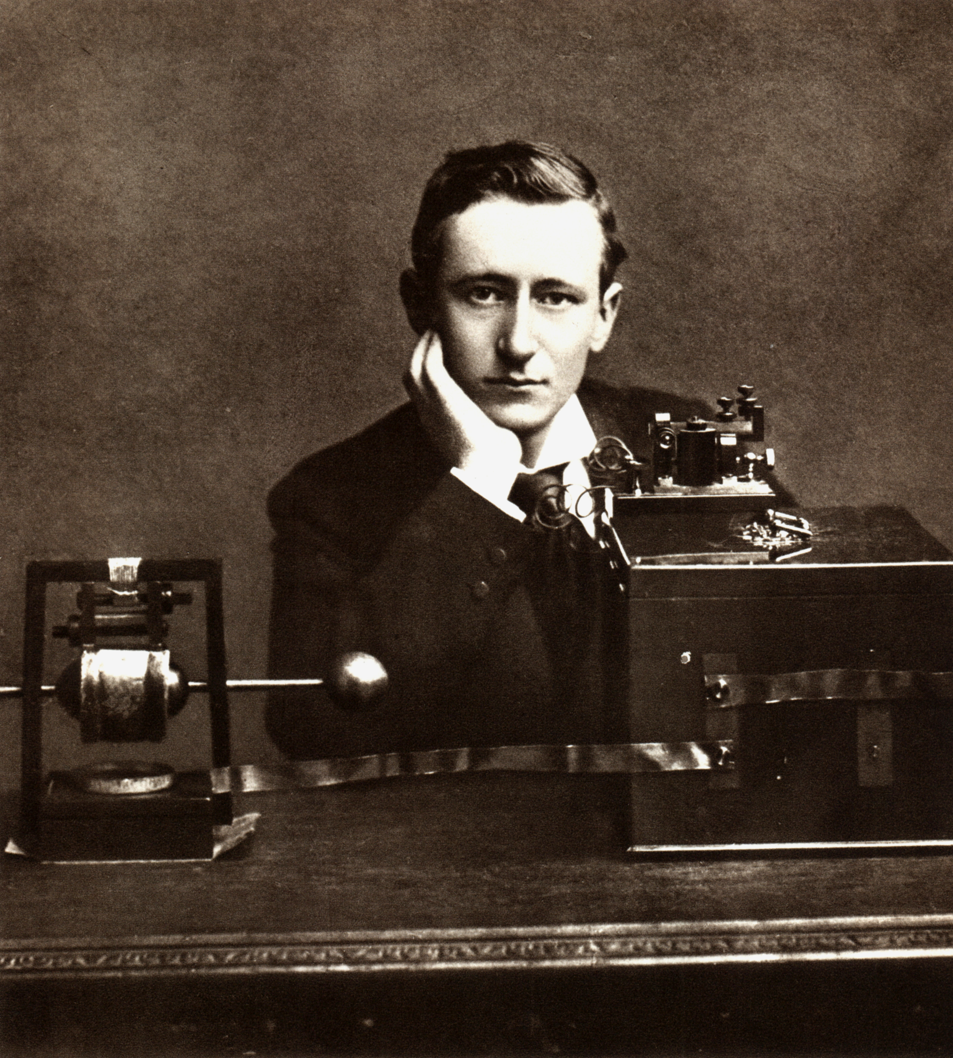 A publicity photo of Italian radio pioneer Guglielmo Marconi posing in front of his early radio apparatus. The device at left is the transmitter, consisting of a Righi spark gap dipole antenna (balls) which is powered by high voltage from an induction coil (not visible). When sparks jump between the central metal balls, radio frequency oscillating currents are excited in the metal rod antenna, radiating radio waves. The device on the right is the receiver. It uses a primitive radio wave detector called a coherer (in box). When a radio wave from the transmitter strikes the coherer it becomes conductive. The coherer applies a pulse of DC current from a battery through a second circuit attached to the coherer to the mechanism at top, a telegraph sounder, creating a "click" sound. Information can be transmitted by turning the transmitter on and off rapidly with a switch called a telegraph key, spelling out messages in Morse code. The message can be translated from the series of clicks produced by the receiver. This early transmitter radiated radio waves at UHF frequencies, and its range was limited to a few hundred feet. Creator/Photographer: Unidentified. Medium: Medium unknown Dimensions: 21.9 cm x 19.7 cm Date: prior to 1937 Collection: Scientific Identity: Portraits from the Dibner Library of the History of Science and Technology - As a supplement to the Dibner Library for the History of Science and Technology's collection of written works by scientists, engineers, natural philosophers, and inventors, the library also has a collection of thousands of portraits of these individuals. The portraits come in a variety of formats: drawings, woodcuts, engravings, paintings, and photographs, all collected by donor Bern Dibner. Presented here are a few photos from the collection, from the late 19th and early 20th century. Persistent URL: [1] Repository: Smithsonian Institution Libraries Accession number: SIL14-M001-13